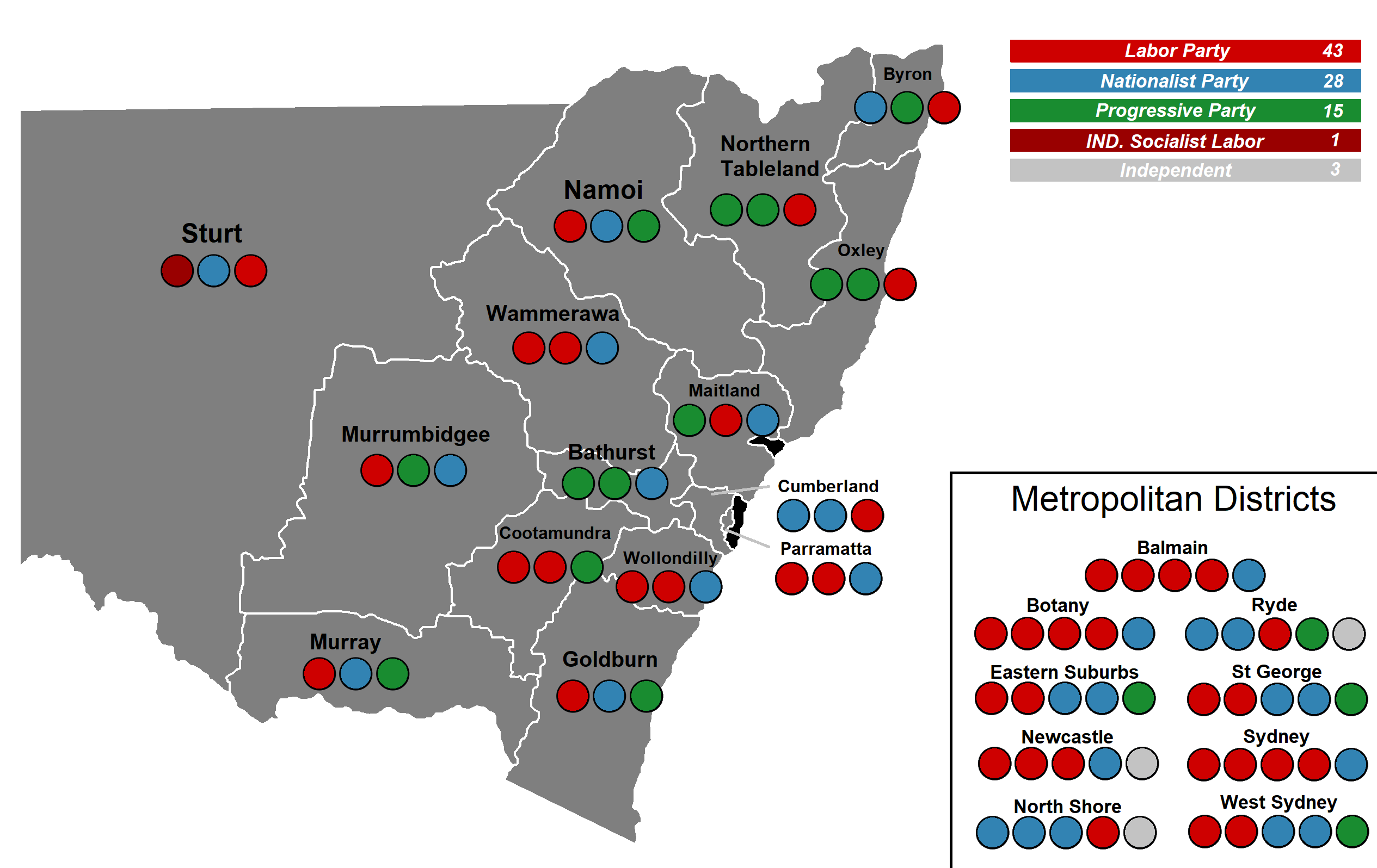 Electoral Map of the 1920 NSW Election